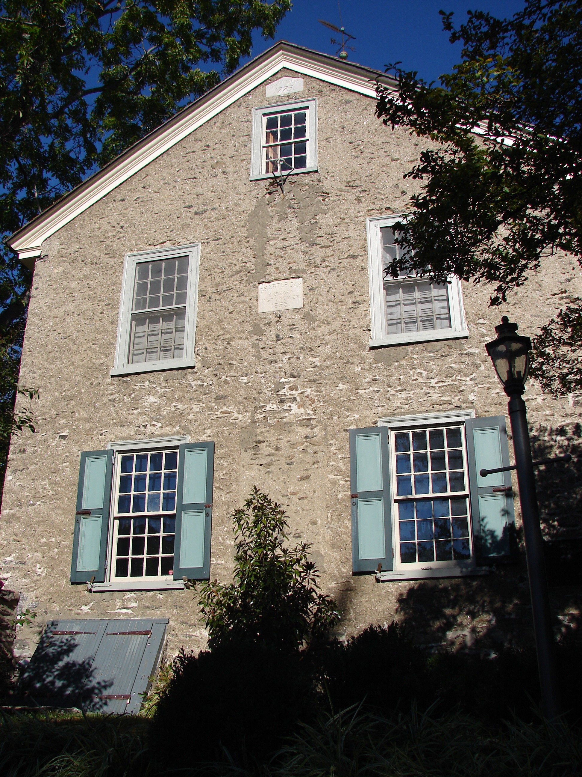 6311 Germantown Ave., Philadelphia, PA. Concord School, built 1775 (datestone visible near peak of the roof) probably by master carpenter Jacob Knor. Perhaps named for the battle of Concord which occurred the same year, or perhaps for a ship that brought over German settlers. Considered significant in the Colonial Germantown Historic District.